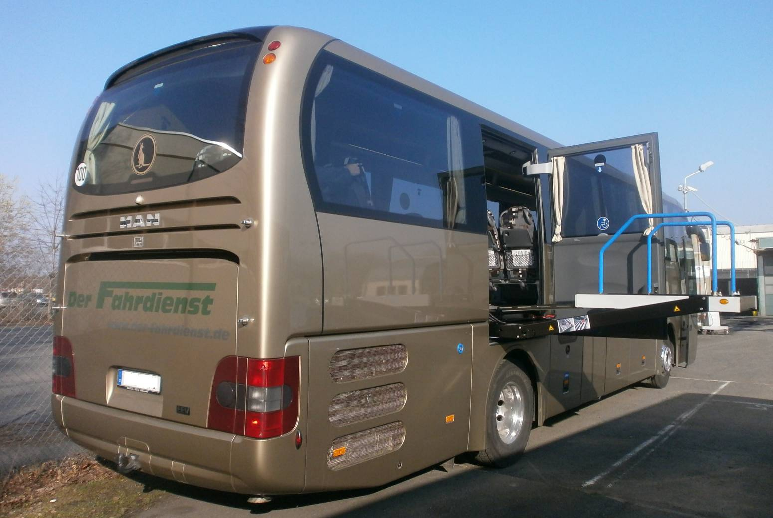 MAN coach with wheelchair-lift